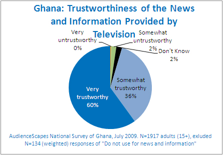 Ghana mass media trustworthiness of the news and information provided by telivision chart.